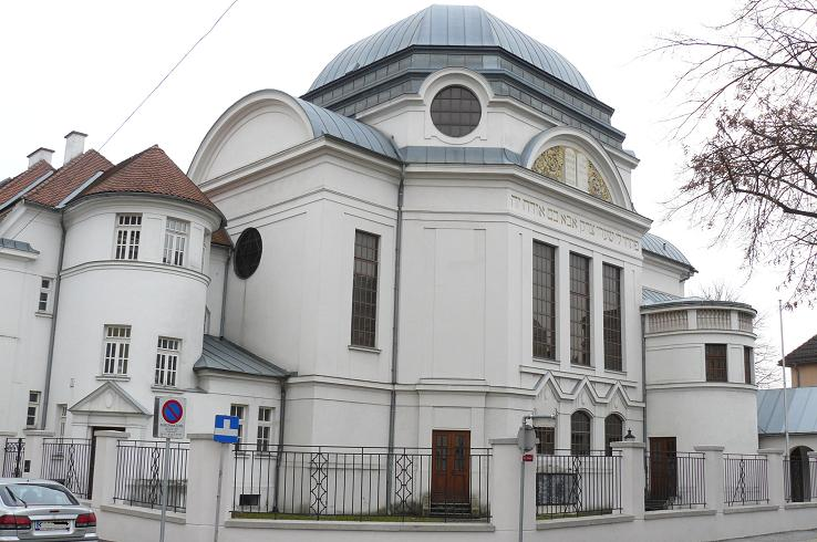 Synagogue in Sankt Polten.